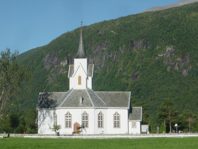 Nesset and the Sira kirke